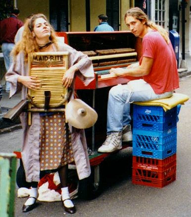 Lisa "Ragtime Annie" Driscoll playing washboard and Scott Kirby playing piano on Royal Street, the French Quarter, New Orleans, Louisiana, about 1990. The washboard has a brass rubbing surface in the wood frame; the musician has added a cymbal and a bell to the sides of the washboard. Photo by Infrogmation of New Orleans.